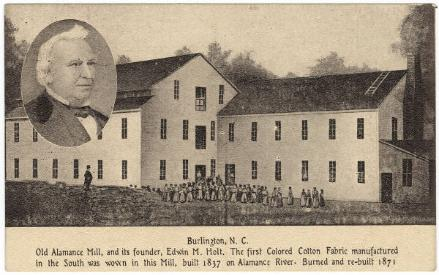 Haw River Mill, built by Edwin M. Holt, 1837, Alamance County, North Carolina; part of the Alamance Mill Village Historic District. The first colored cotton fabrics in the South were manufactured here.[1]